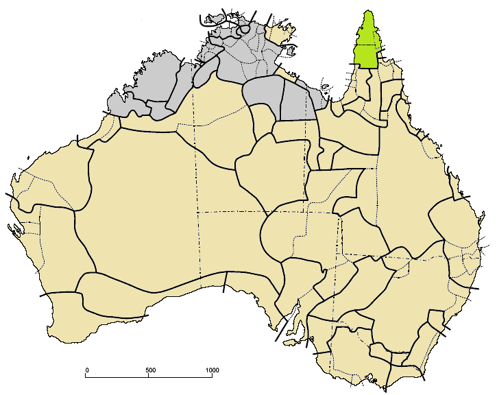 North Cape York Paman languages (green) among other Pama–Nyungan (tan)